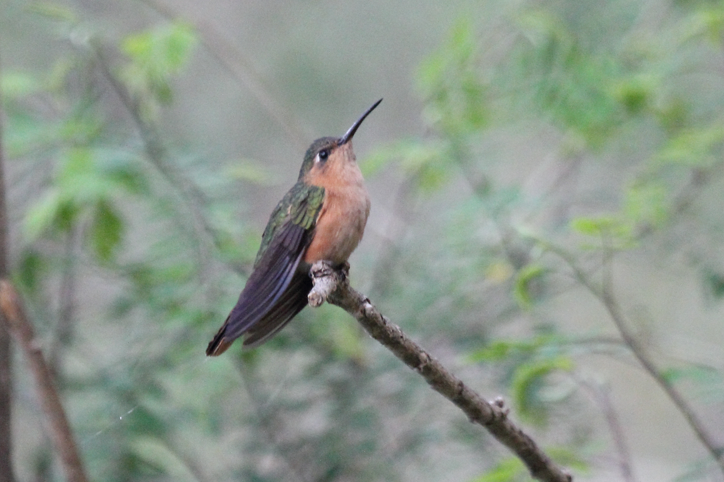 Rufous Sabrewing (Campylopterus rufus)